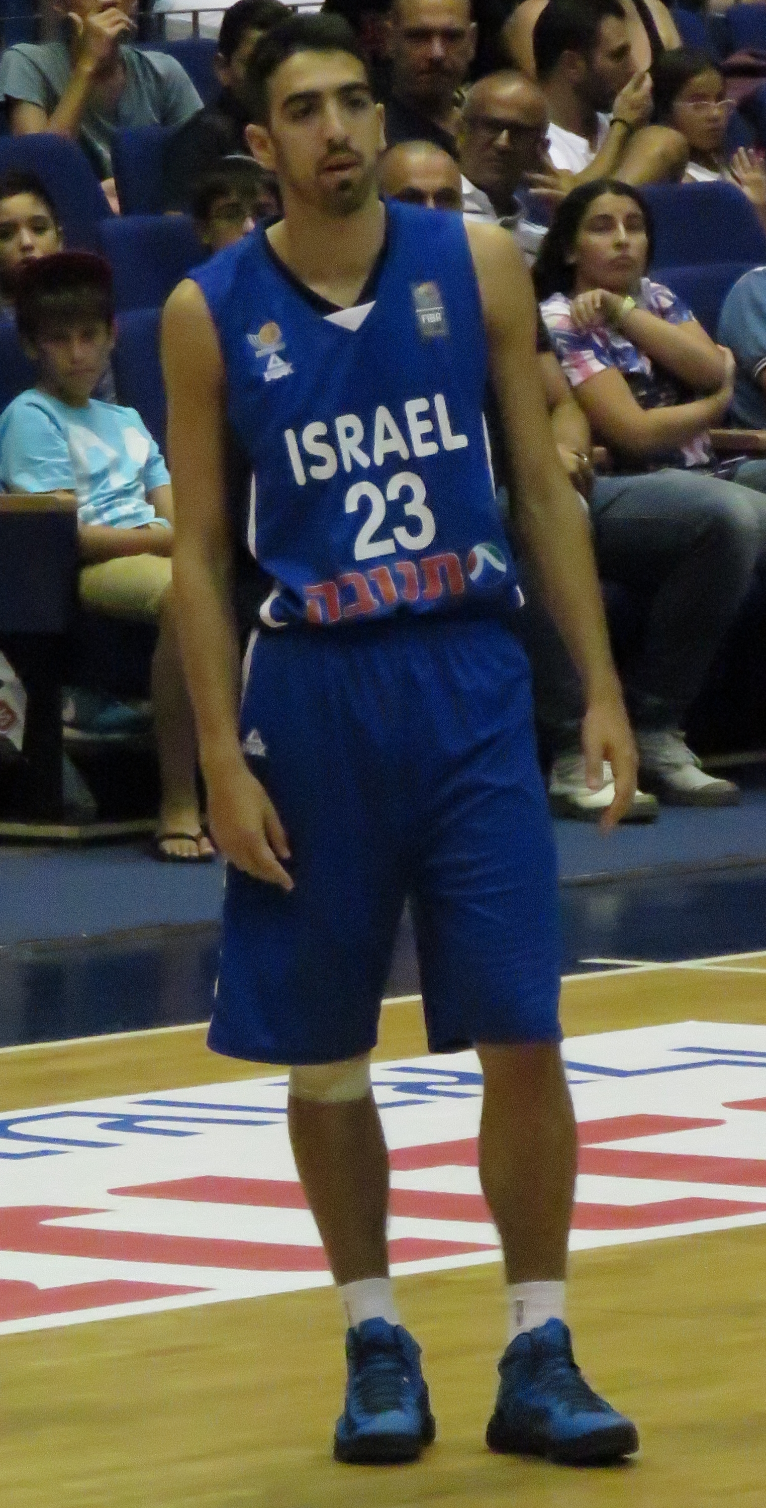 Israel vs. Serbia - August 23, 2015